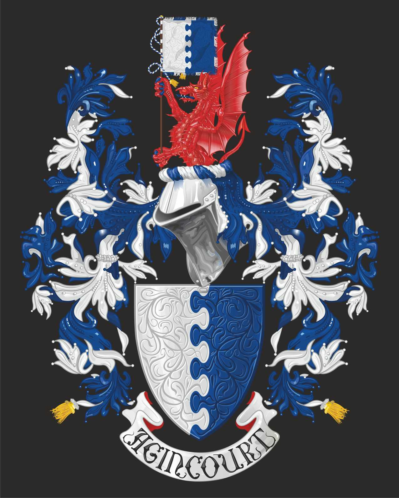 The armorial achievement of Jeffrey Thomas, agnatic descendant of Sir William ap Thomas, the "Blue Knight of Gwent" (obit 1445). The arms are those recorded in the 1620 Visitation of Cornwall, ascribed to the Thomases of Lelant, Thomases of Crowan, Thoms, and the Bosarvanes of St Just families, all patrilineally descended from "Richard Thomas gent. of Wales" who settled in Lelant in Cornwall some time early in the sixteenth century, where he married the daughter and heiress of John Hicks of Lelant. The motto and crest are those of the descendants of Rev. William Courtenay Thomas, the current armiger's grandfather. The 1620 Visitation records state "This coate of Pr pale nebule Ar. B. was ye coate armor of Sr Willm ap Thomas, from whom this familye chalengeth to be descended." Sir William ap Thomas was himself a member of the dispossesed pre-Norman royal family of Gwent, and was married to Gwladys, daughter of Sir Dafydd ap Llewelyn ap Hywel, or "Davy Gam", who was an heir to the Kingdom of Brycheiniog. Davy Gam fell at Agincourt along with Gwladys' first husband. Sir William also is believed to have fought at Agincourt, where he was knighted on the field. The current earls of Pembroke (Herbert family) are descended from an illegitimate grandson of Sir William ap Thomas. Copyright resides with the poster, however the artwork was created by Mr Ljubodrag Grujic.